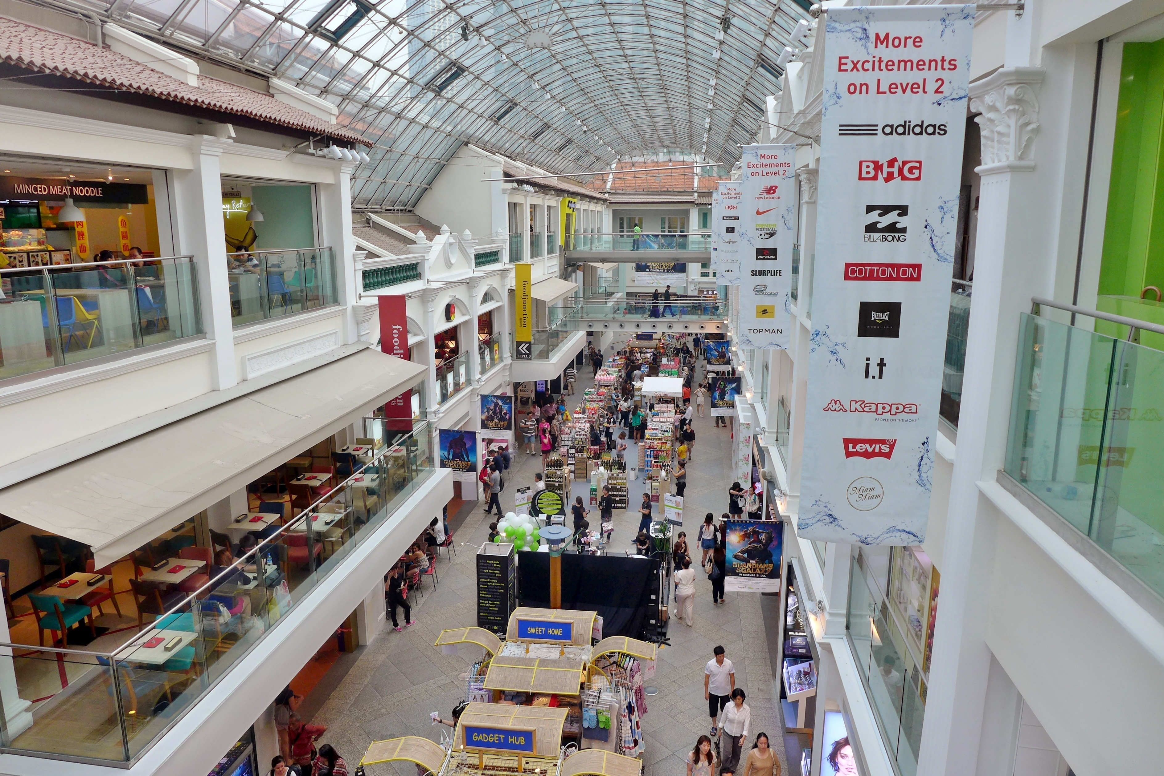 View of the interior of the Bugis Junction shopping mall in Singapore.